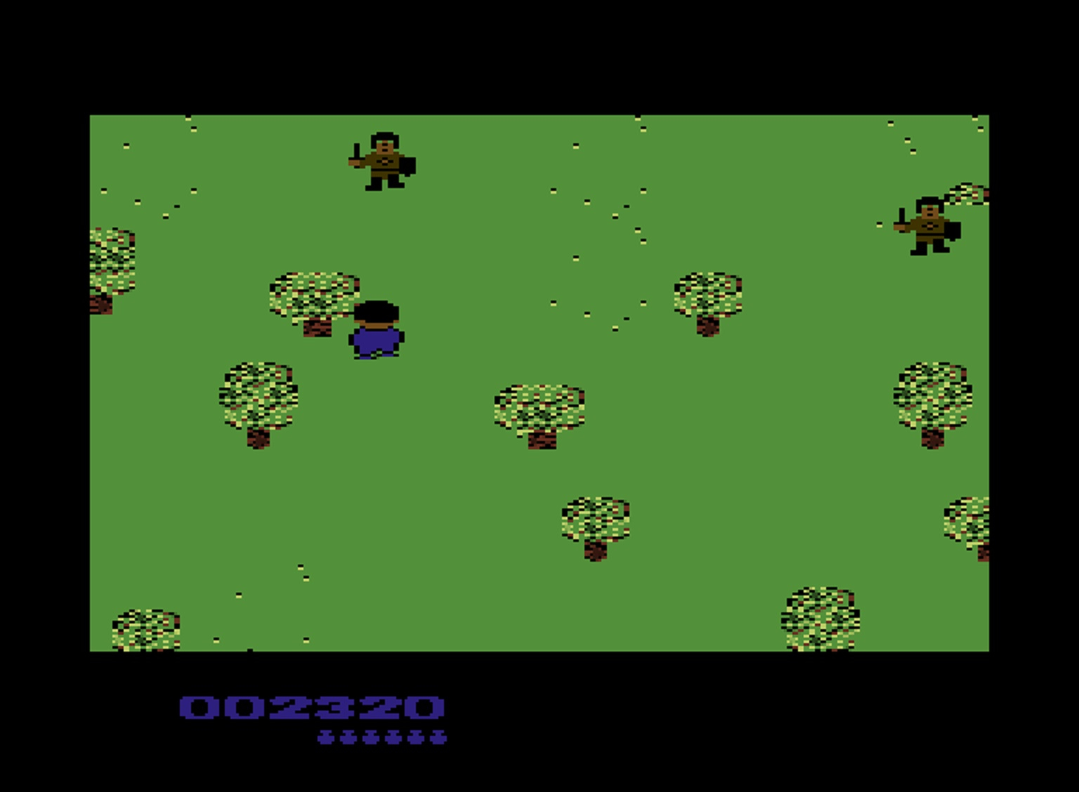 Sprites in a C64 Game (named Spittis Search). I have made the Game, the graphics and so on.